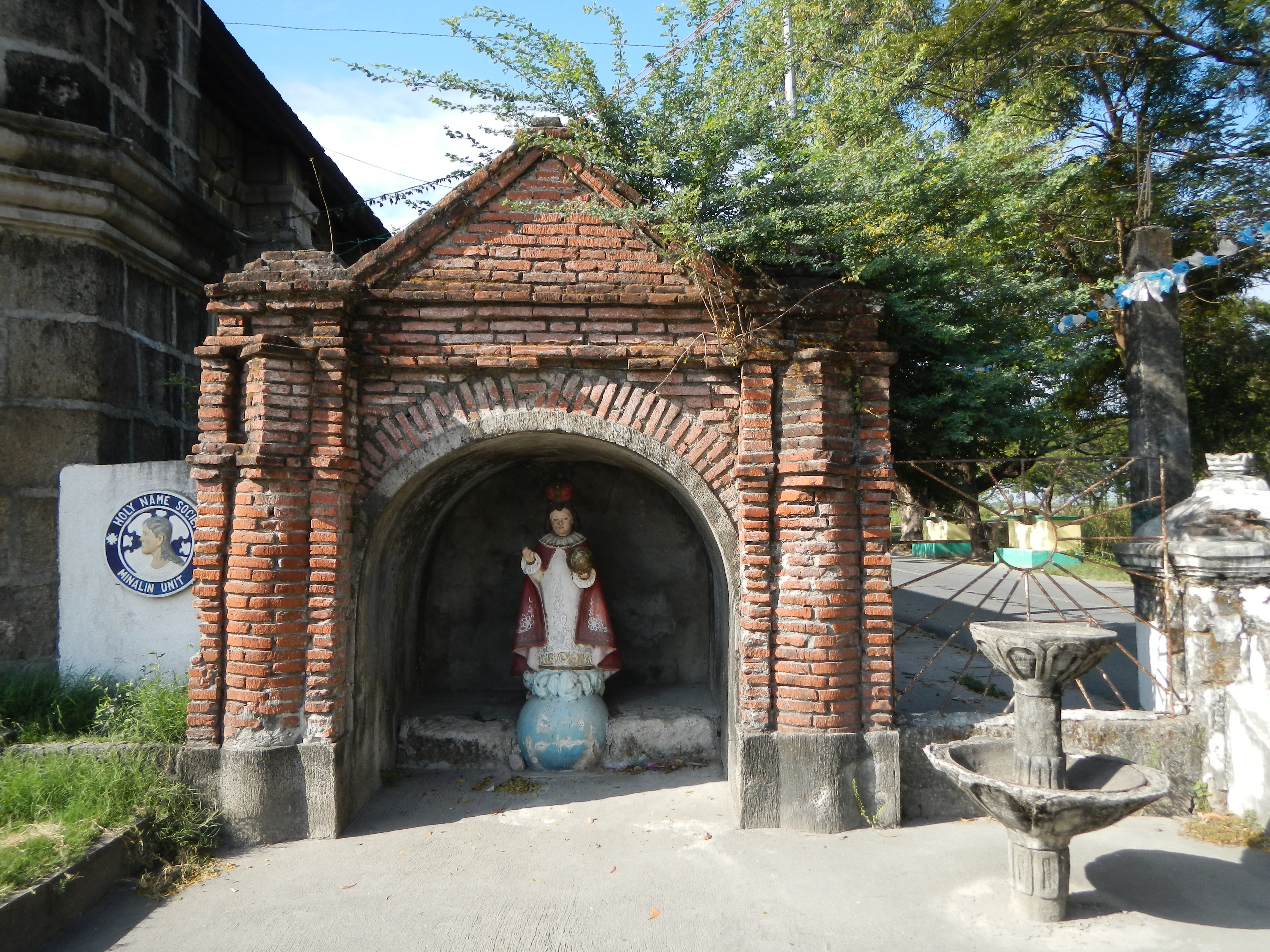 [1]1721 Santa Monica Parish Church, commonly known as the Minalin Church declared a National Cultural Treasure by the National Museum of the Philippines and the National Commission for Culture and the Arts (Philippines) . [2]Minalin, Pampanga (San Nicolas)